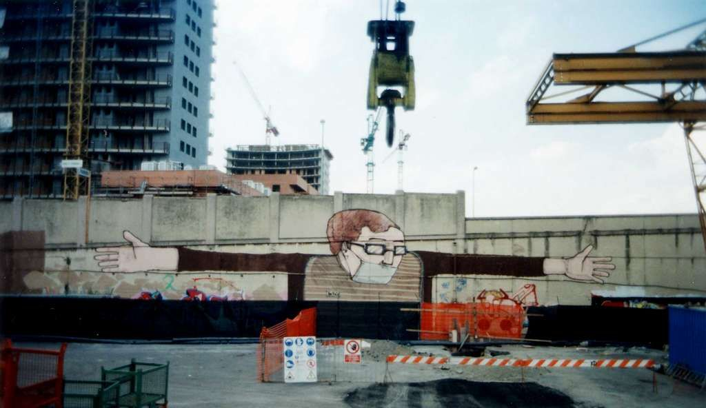 Image of a mural painted by BLU. Bologna, Ponte Stalingrado